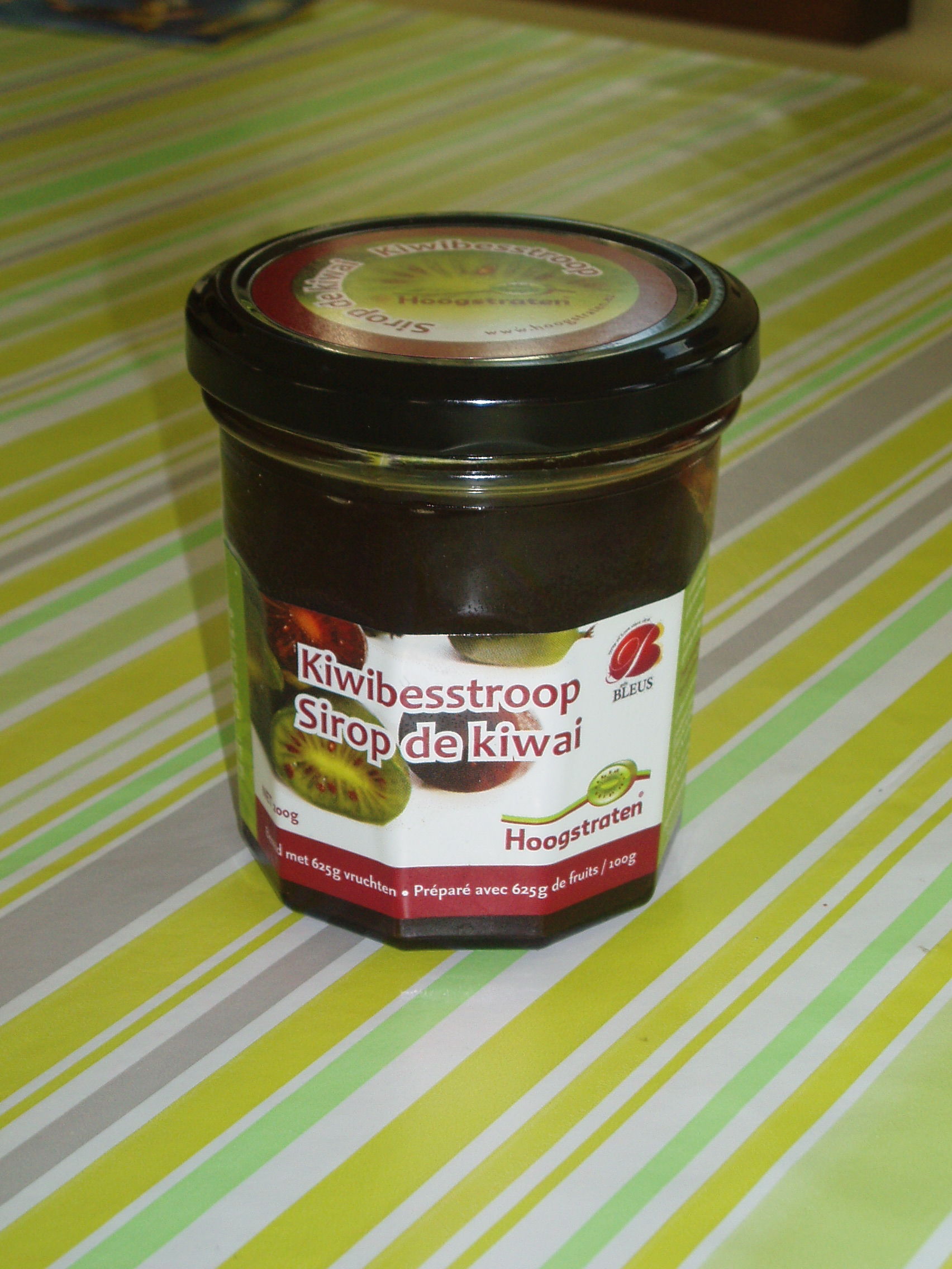 Kiwibesstroop (jam)